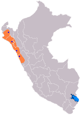 It represents the territory of the Mochica culture, along with 4 blue points which are, from north to south : Pampagrande, Sipan, Moche and Pañamarca.